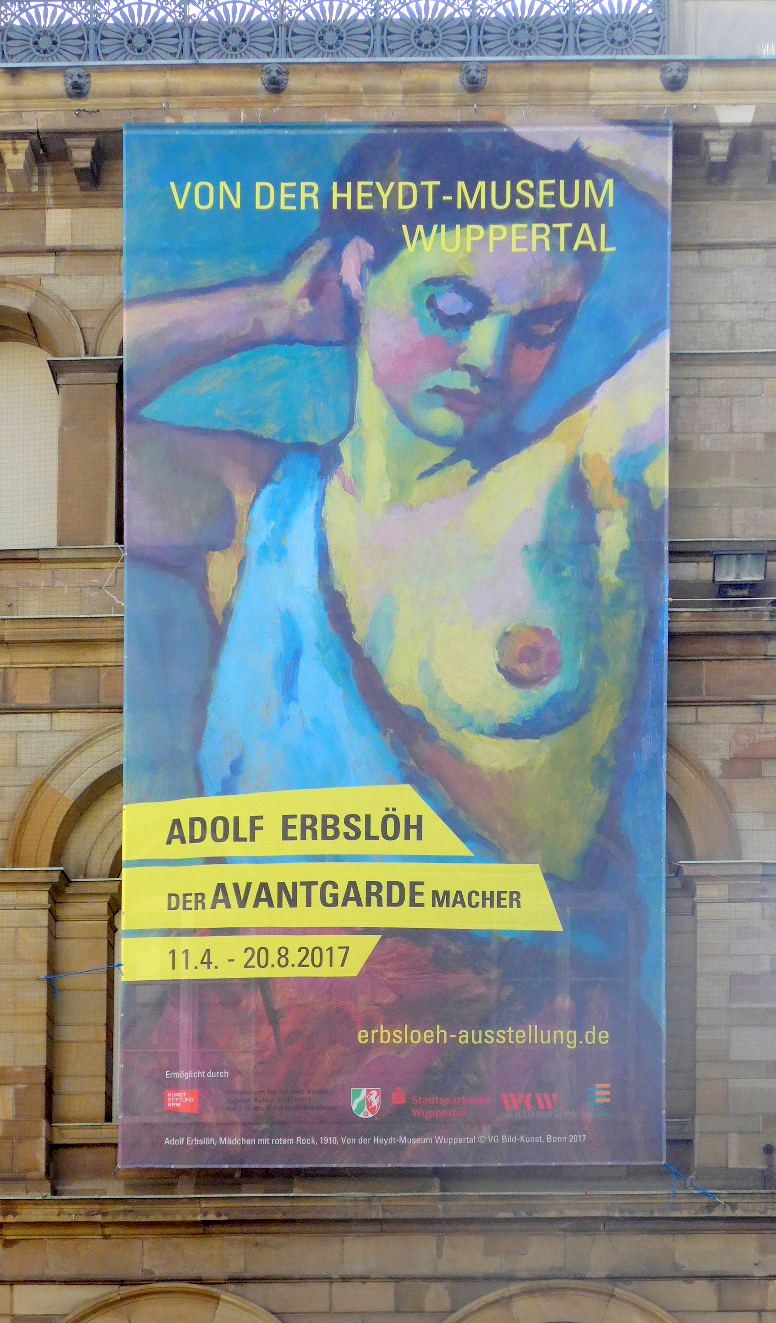 Von der Heydt-Museum, Wuppertal, Germany: Outdoor advertising banner for the exhibition Adolf Erbslöh - the avantgarde maker, 11 April - 20 August 2017